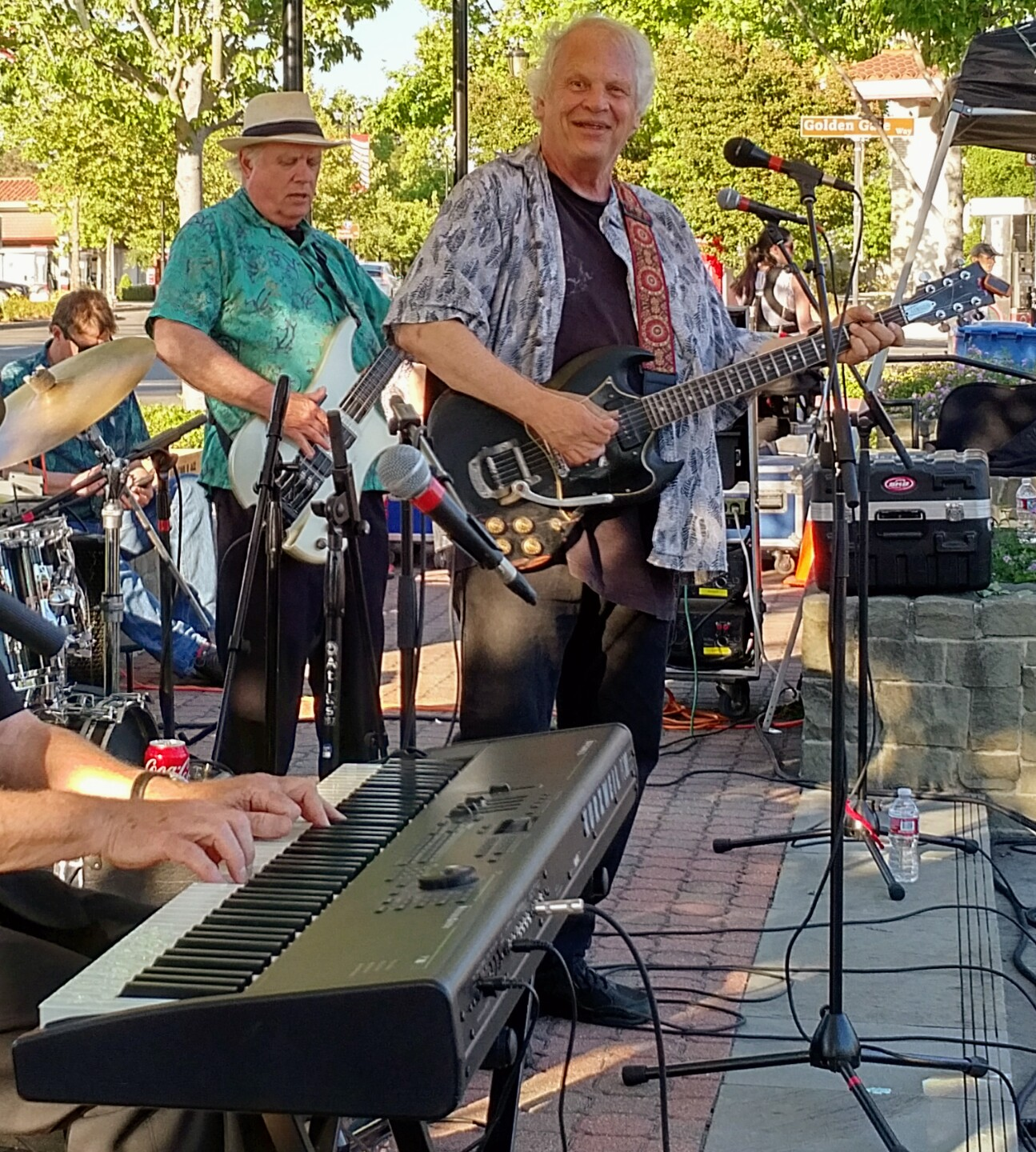 Barry "The Fish" Melton Band at Summer of Love concert in Lafayette, California on Friday June 23, 2017